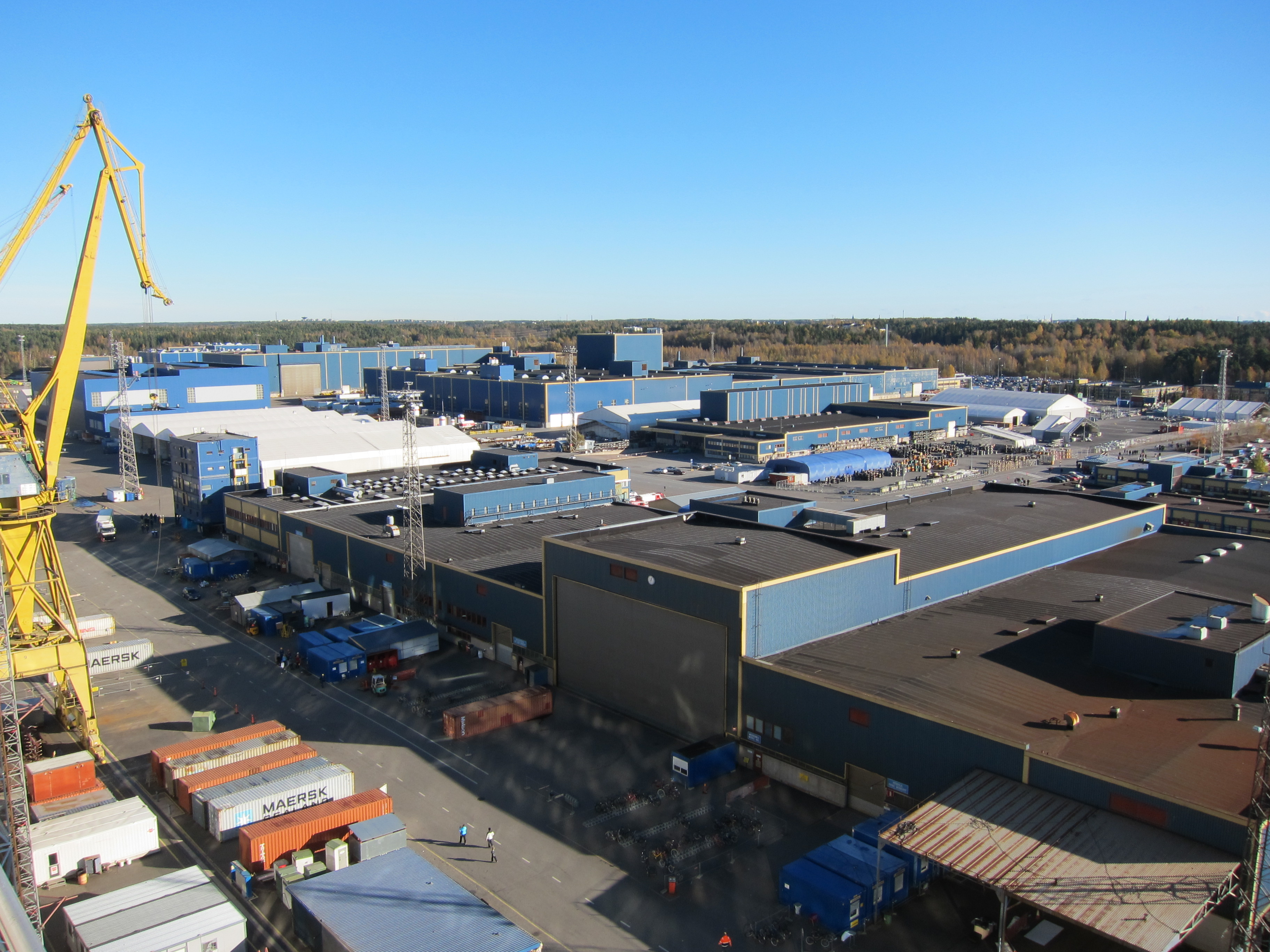 View from MS Allure of the Seas at STX Europe shipyard Turku, Finland.